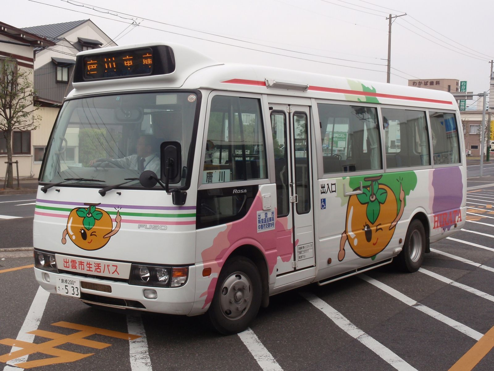 Hirata Seikatsu Bus at Unshu-Hirata Sta.